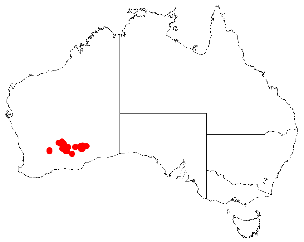 Acacia xerophila occurrence data from Australasia Virtual Herbarium downloaded from on 8 December 2018